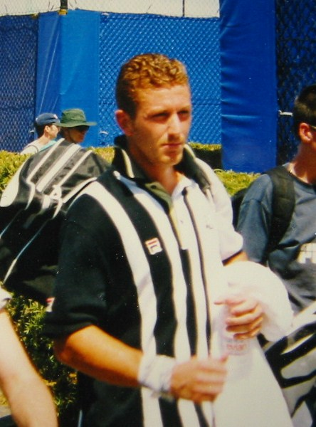 Lionel Roux at Australian Open 98